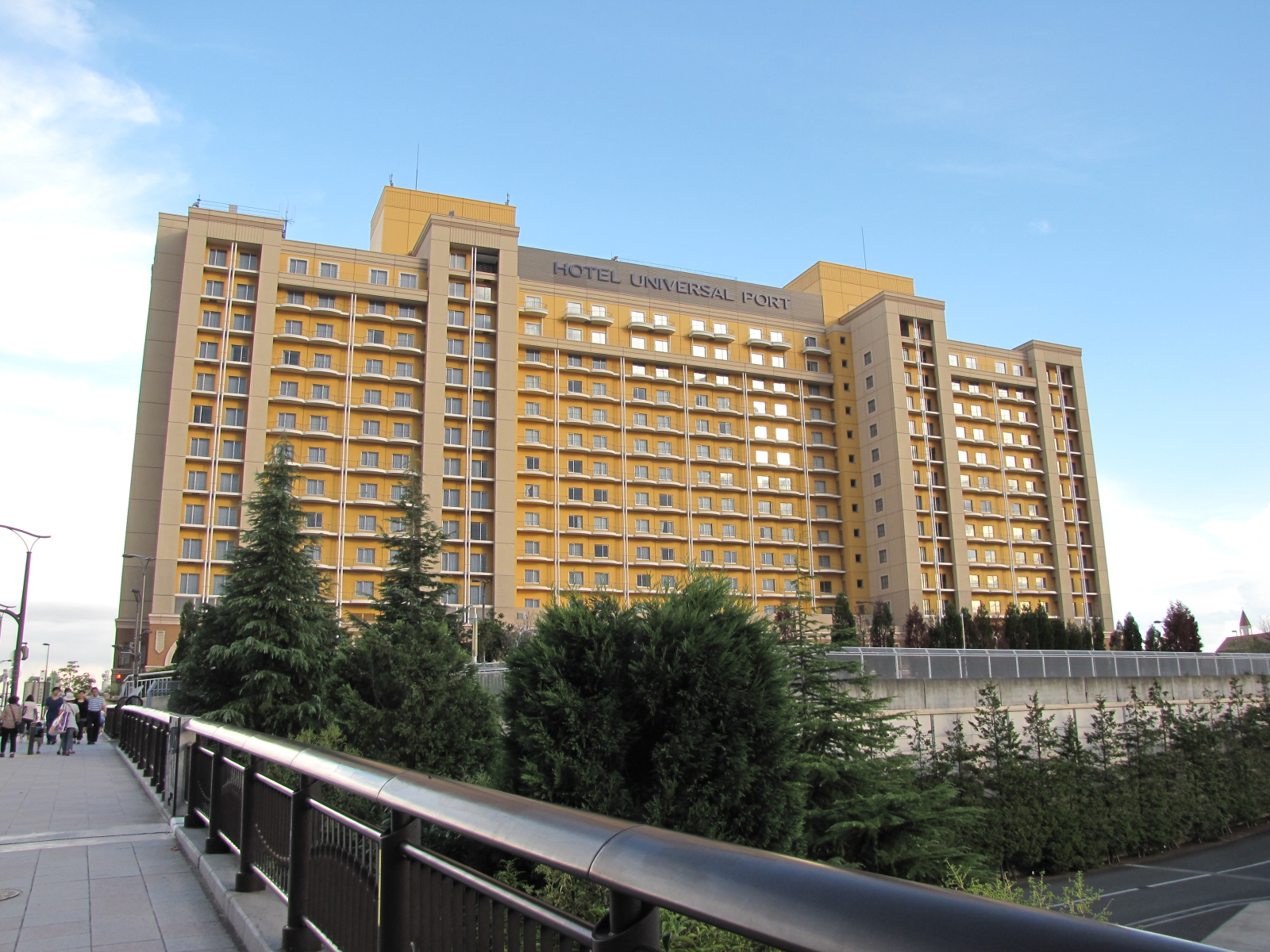 Exterior of Hotel Universal Port